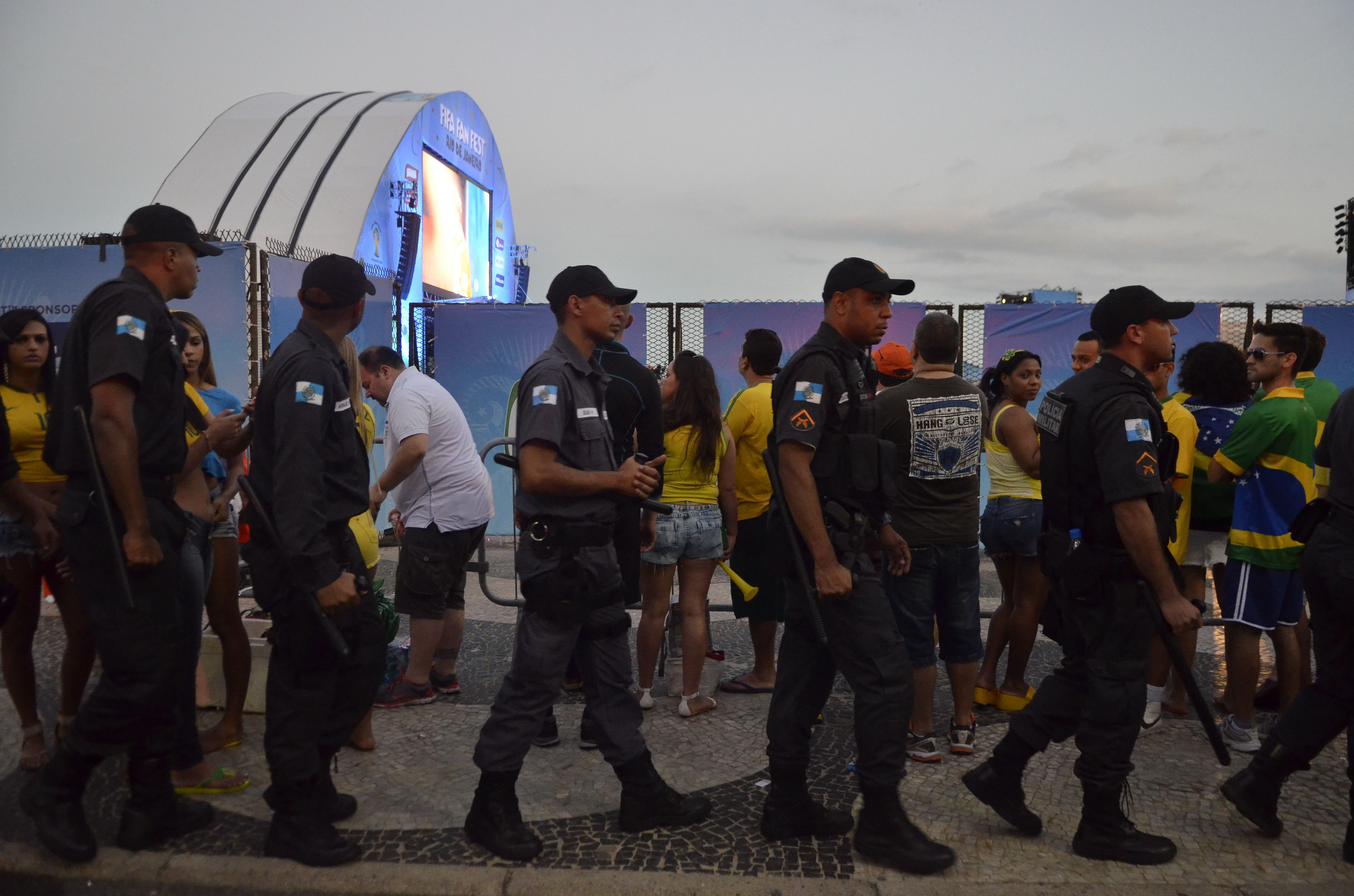 Protest against the World Cup in Copacabana (2014-06-12).